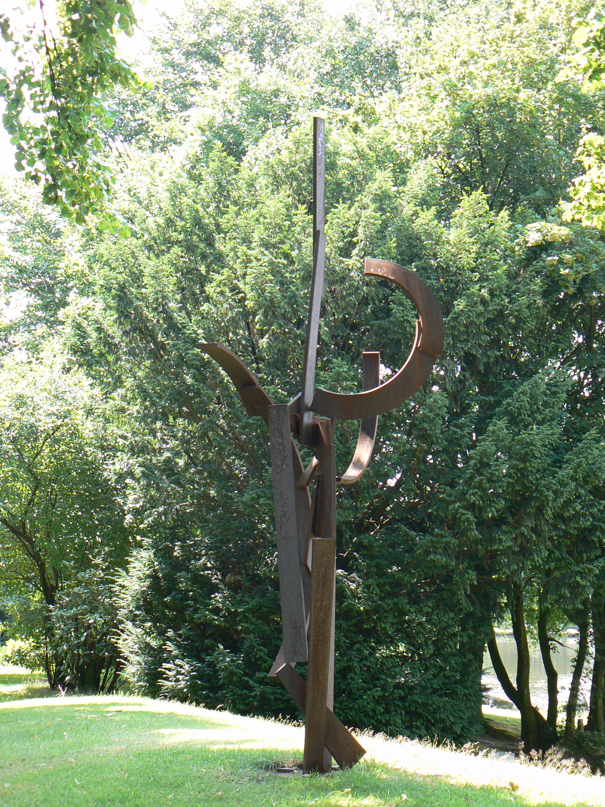 Location: city center Marl/Germany Collection: Skulpurenmuseum Glaskasten, Marl Sculpture: El Greco 1993/4 Sculptor: Paul Suter